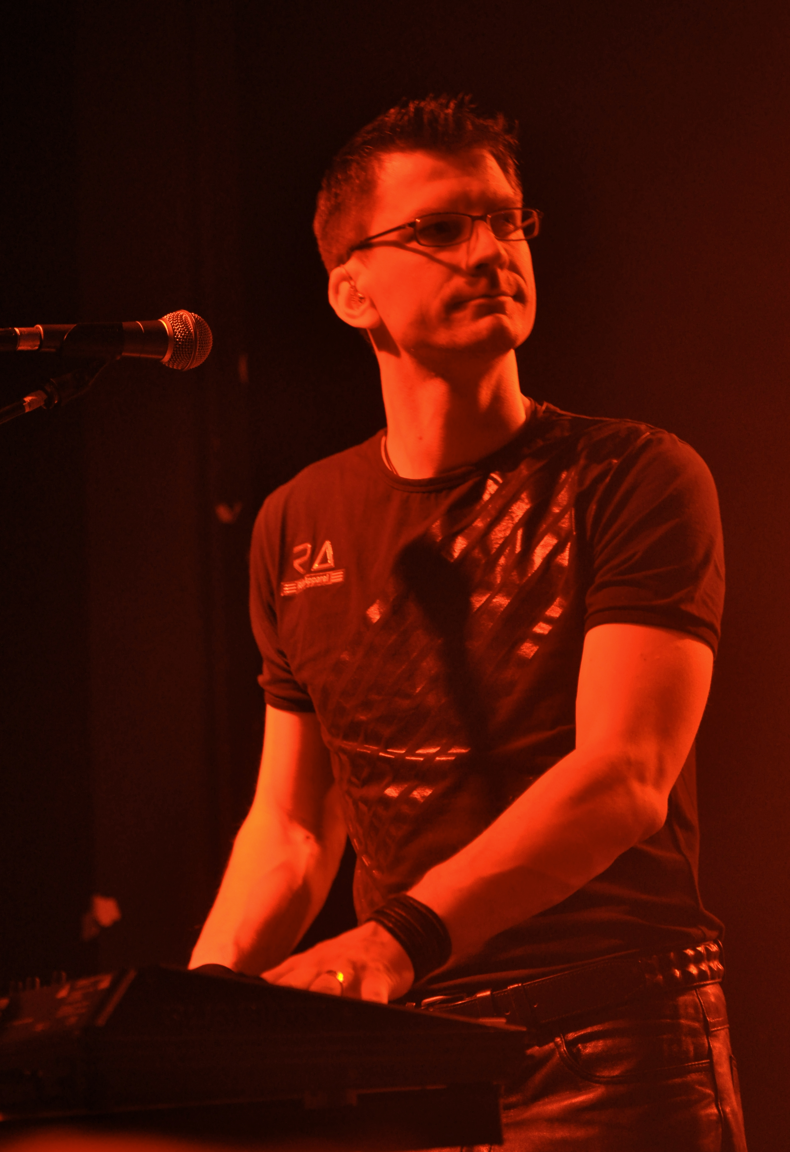 The German Band Diorama at e-tropolis 2013, Berlin